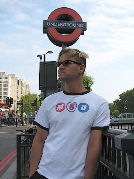 Mick "London" Hale in London, England in Sept. of 2009